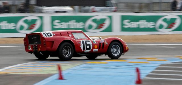 Ferrari 250 GT Breadvan at Le Mans Classic 2008